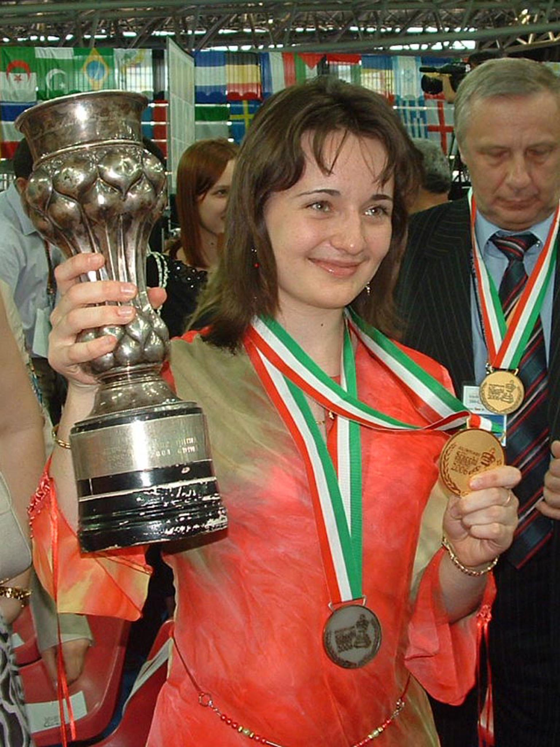 Photo of Kateryna Lahno at Turin chess olympiad 2006.